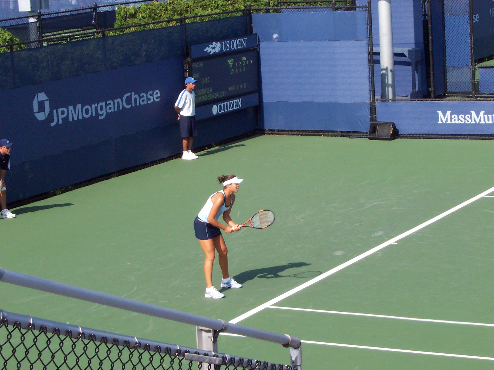 Young Ana Ivanovic Playing 2004 US Open Qualifying